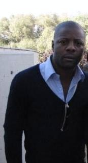 Pascal Nouma